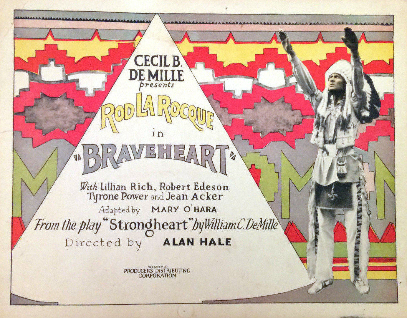 Lobby card for the American drama film Braveheart (1925).